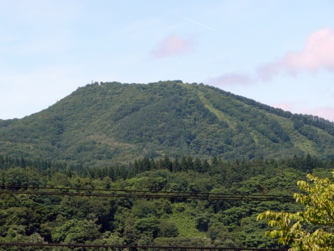 Mount Kuromori (Kuromori-yama) seen from the south, in Kazuno, Akita Prefecture, Japan.